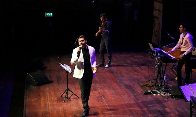 Ehsan Khajeh Amiri, Persian pop singer in a concert in Rotterda,'s De Doelen, 16 May 2015. Photo by Persian Dutch Network